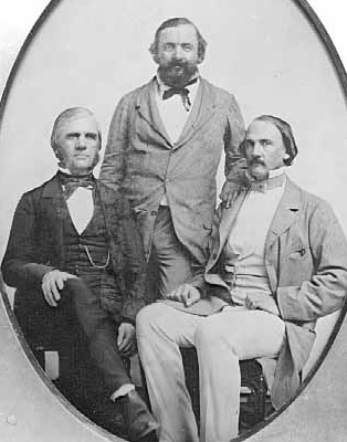 "Joseph Rolette, center, Henry H. Sibley, right, and man at left, possible Franklin Steele.